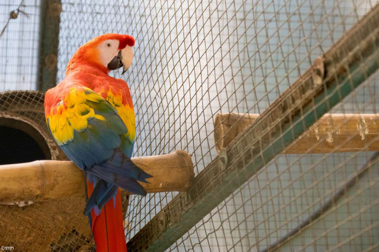 Wildlife and Plants of Israel